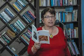 Photo of Greta Rana reading a page from a book.